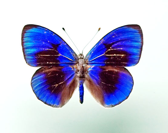 Callithea Sapphira male, Augsburg Naturmuseum.This photograph was taken with a Sony ILCE-5000